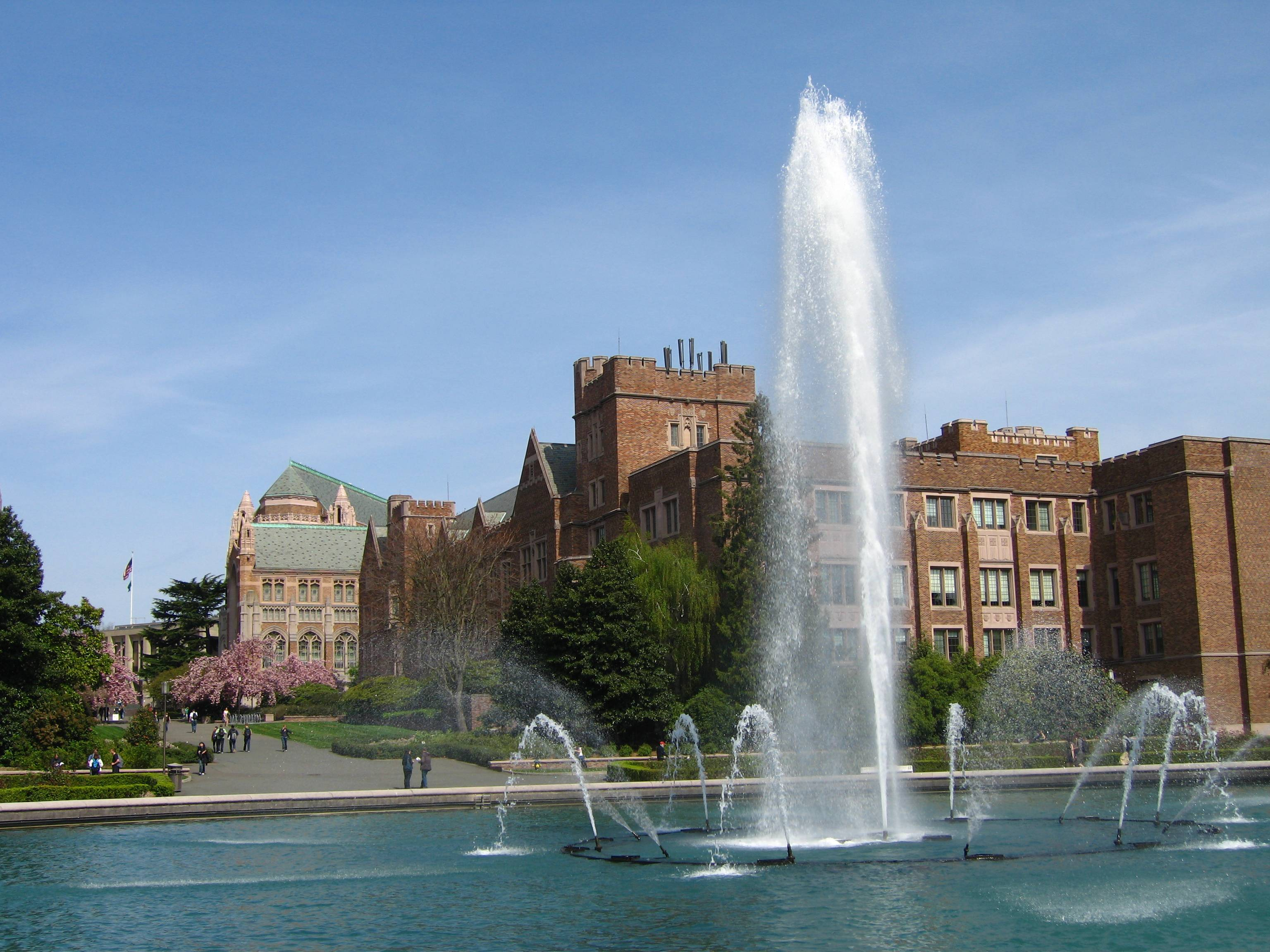 University of Washington: Drumheller Fountain and Mary Gates Hall.